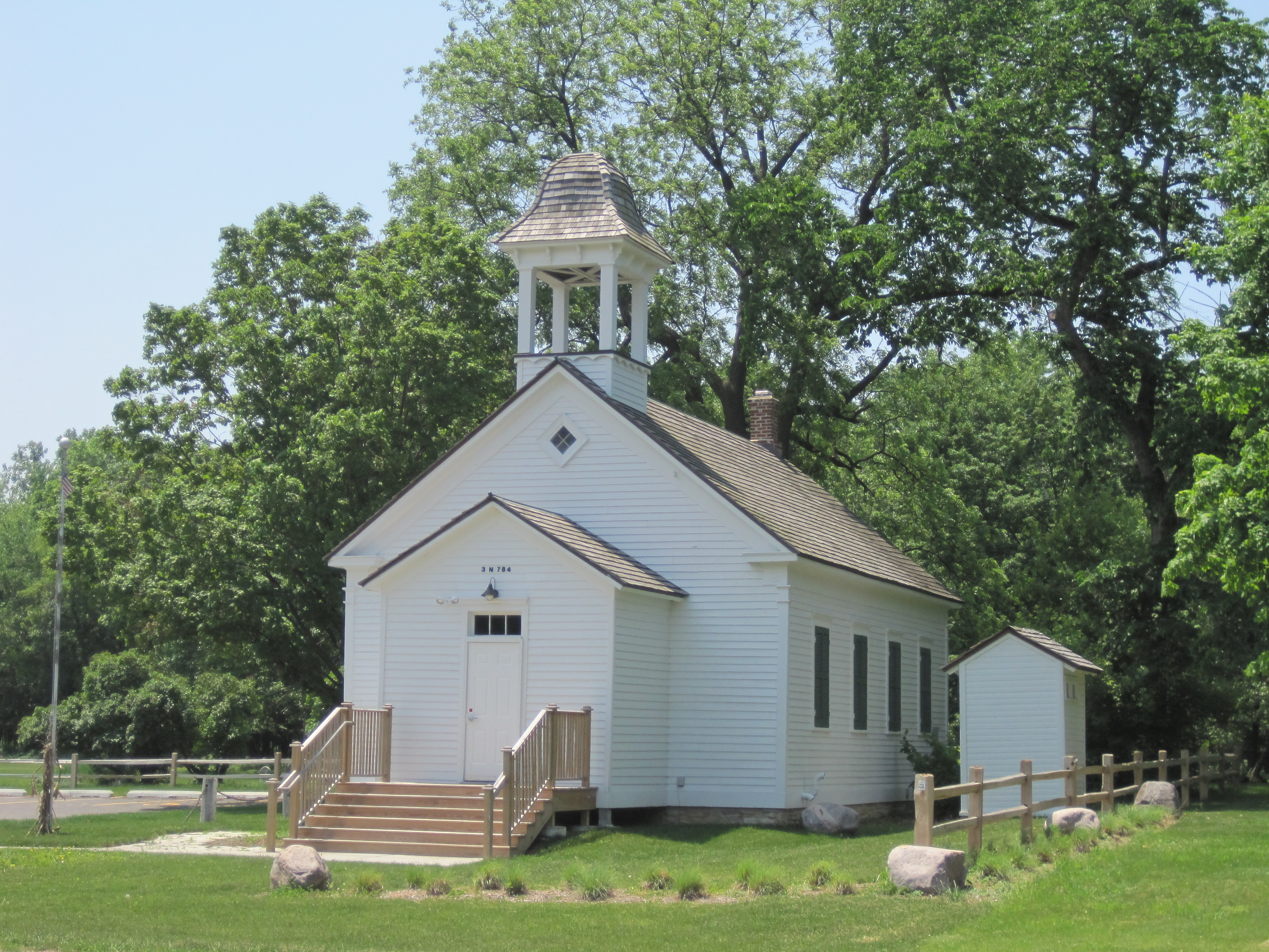 I (Teemu08 (talk)) took this image on June 6, 2011.